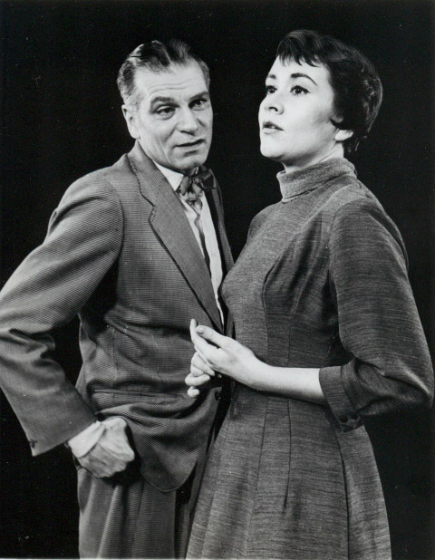 Photo of Sir Laurence Olivier and Joan Plowright performing in The Entertainer on Broadway in 1958.